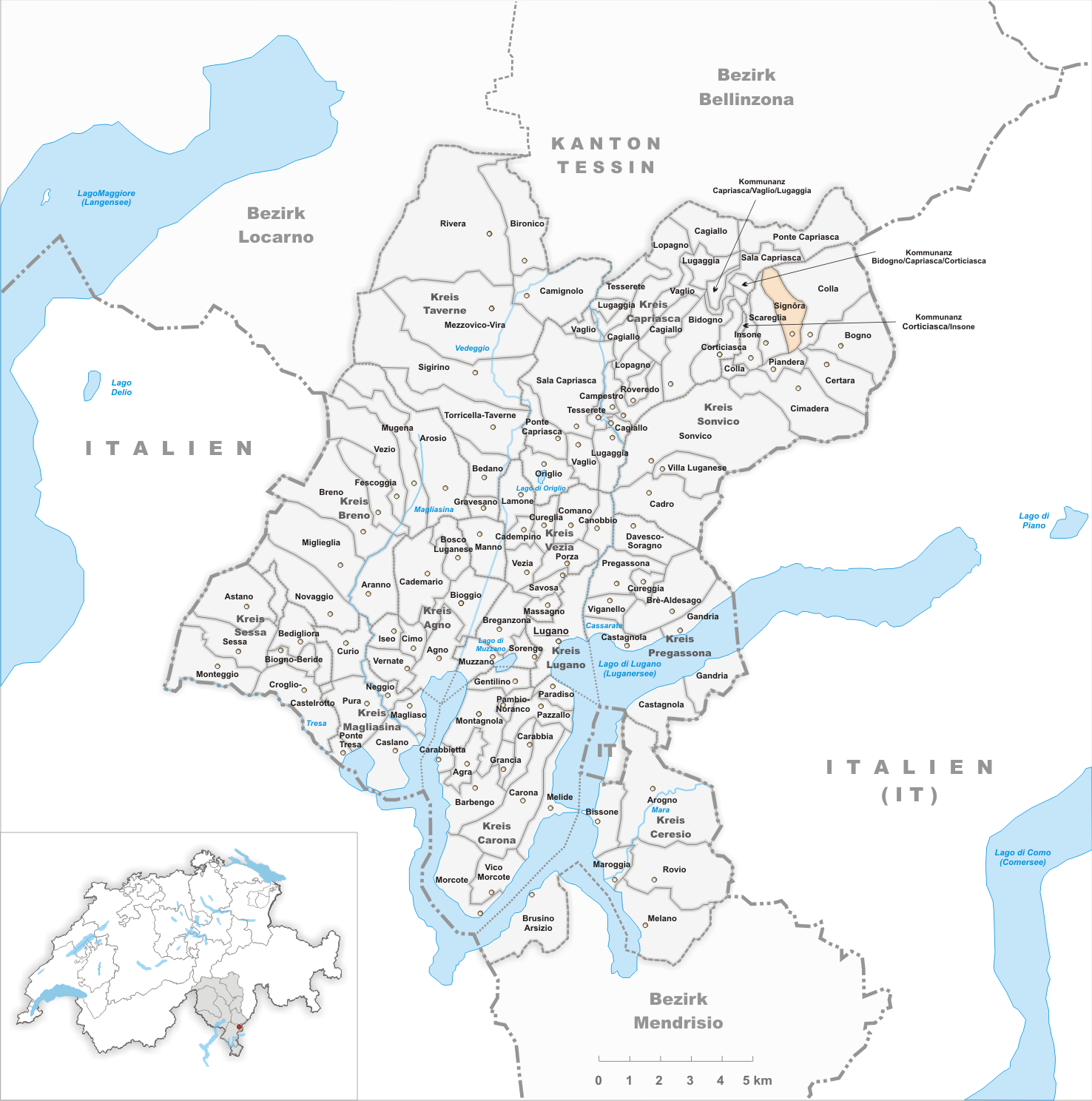 Municipality Signôra Artist: Tschubby